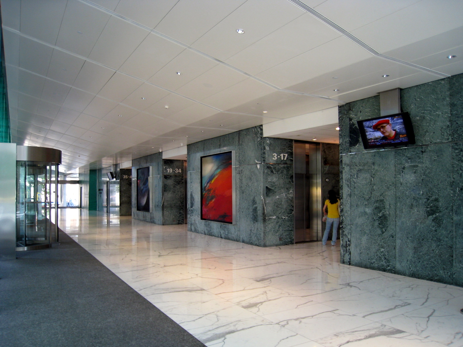 HK Jardine House Lift Lobby 怡和大廈地下大堂